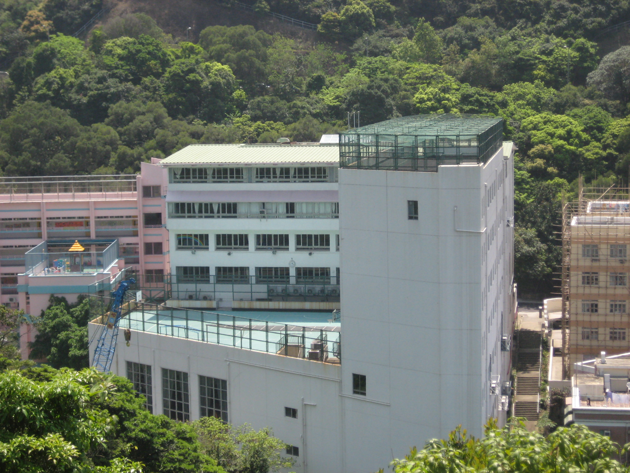 Hong Kong Japanese School Primary Section, in Blue Pool Road, Hong Kong Island, Hong Kong Special Administrative Region, People's Republic of China.(From Jardine's Lookout)